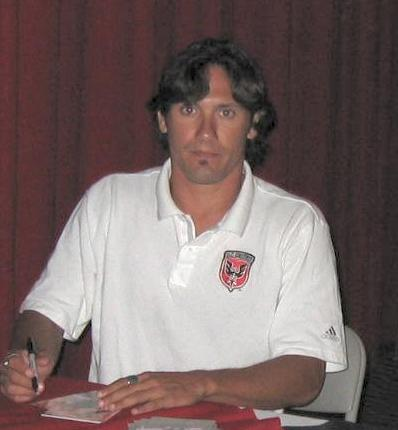 Photo of Thiago Martins taken by me at D.C. United meet-the-team day.